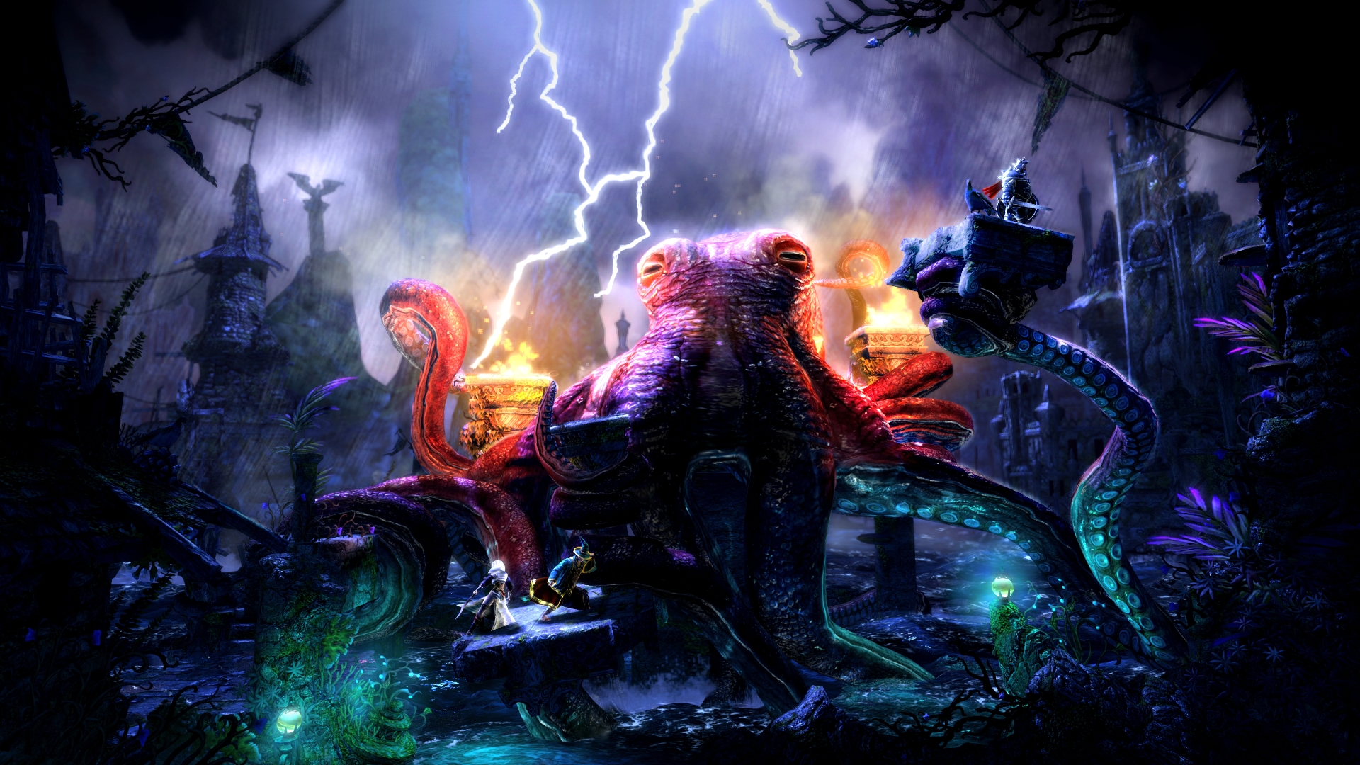 Trine 2 screenshot. Released in 2011, the game was developed by Frozenbyte. The three heroes navigate platforms being held aloft by a giant octopus in this scene from the Searock Castle chapter.